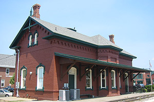 Randolph station in July 2006